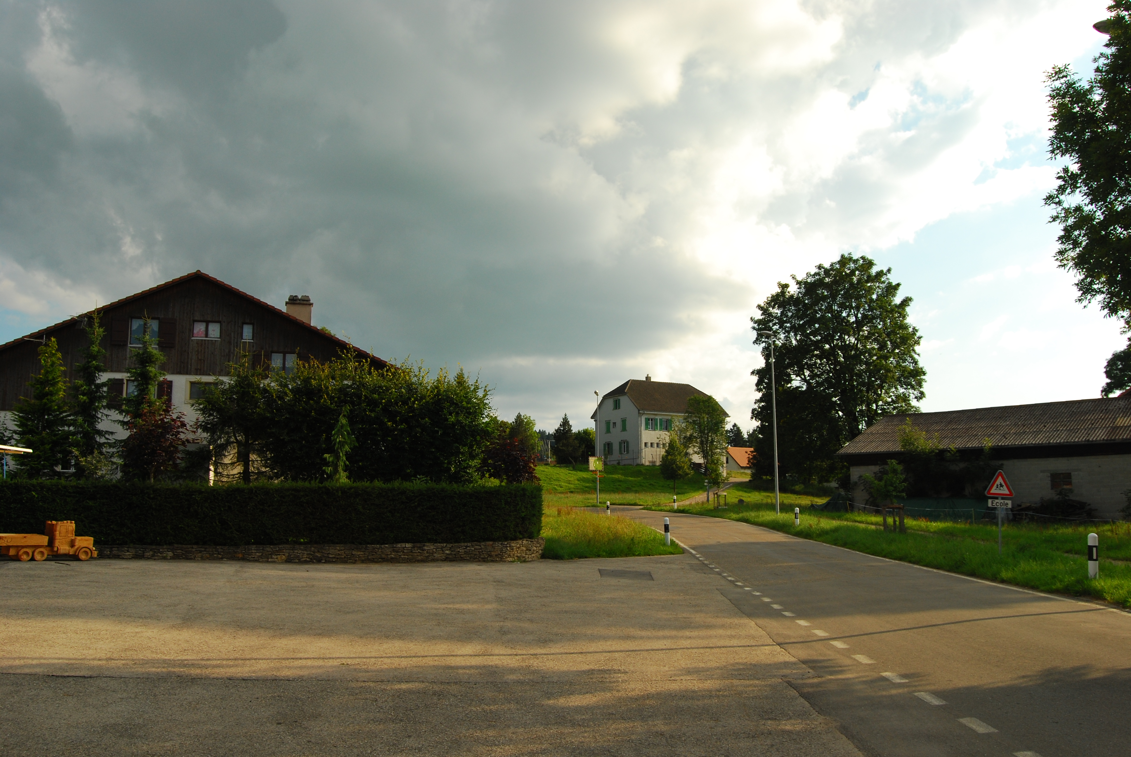 Les Enfers, canton of Jura, Switzerland